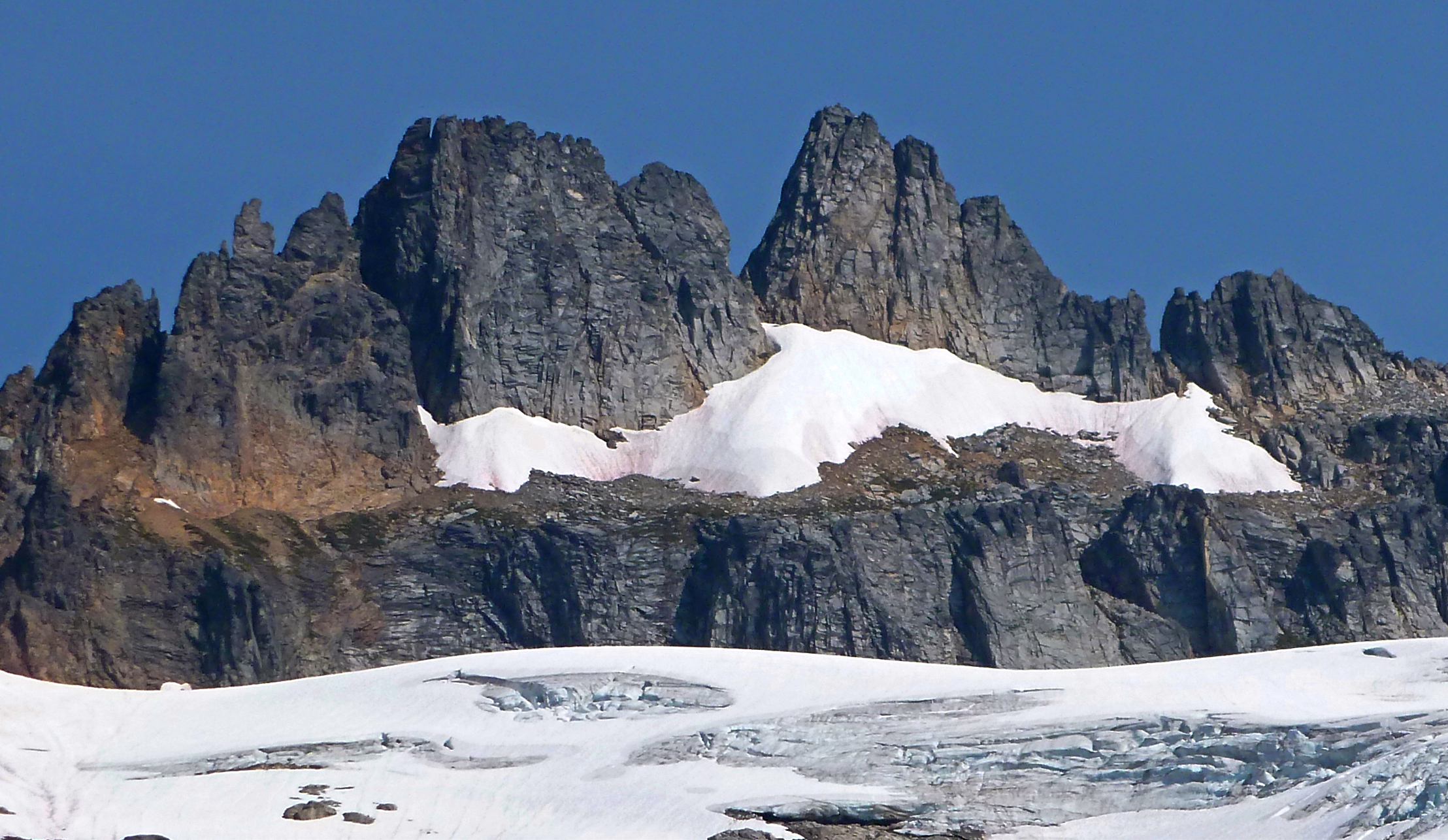 Sharkfin Tower from southwest